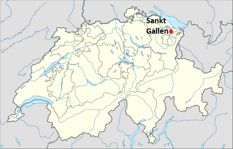 Location of Sankt Gallen in Switzerland